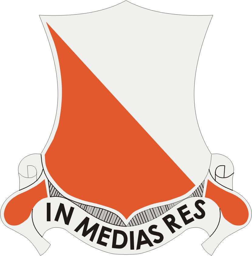 1st Signal Battalion